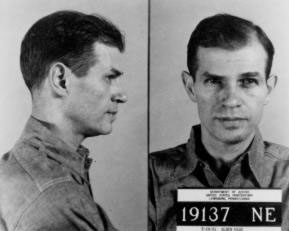 Alger Hiss, American statesman accused of espionage.